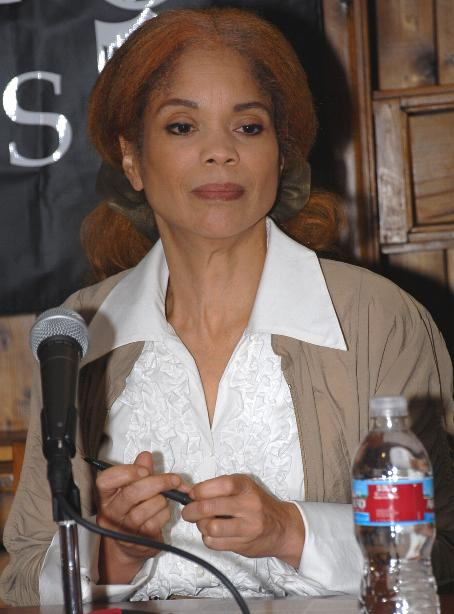 Constance L. Rice, also known as Connie Rice, (born April 5, 1956 in Washington, D.C.) is a prominent American civil rights activist and lawyer. She is also the co-founder and co-director of the Advancement Project in Los Angeles. She has received more than 50 major awards for her work in expanding opportunity and advancing multi-racial democracy.